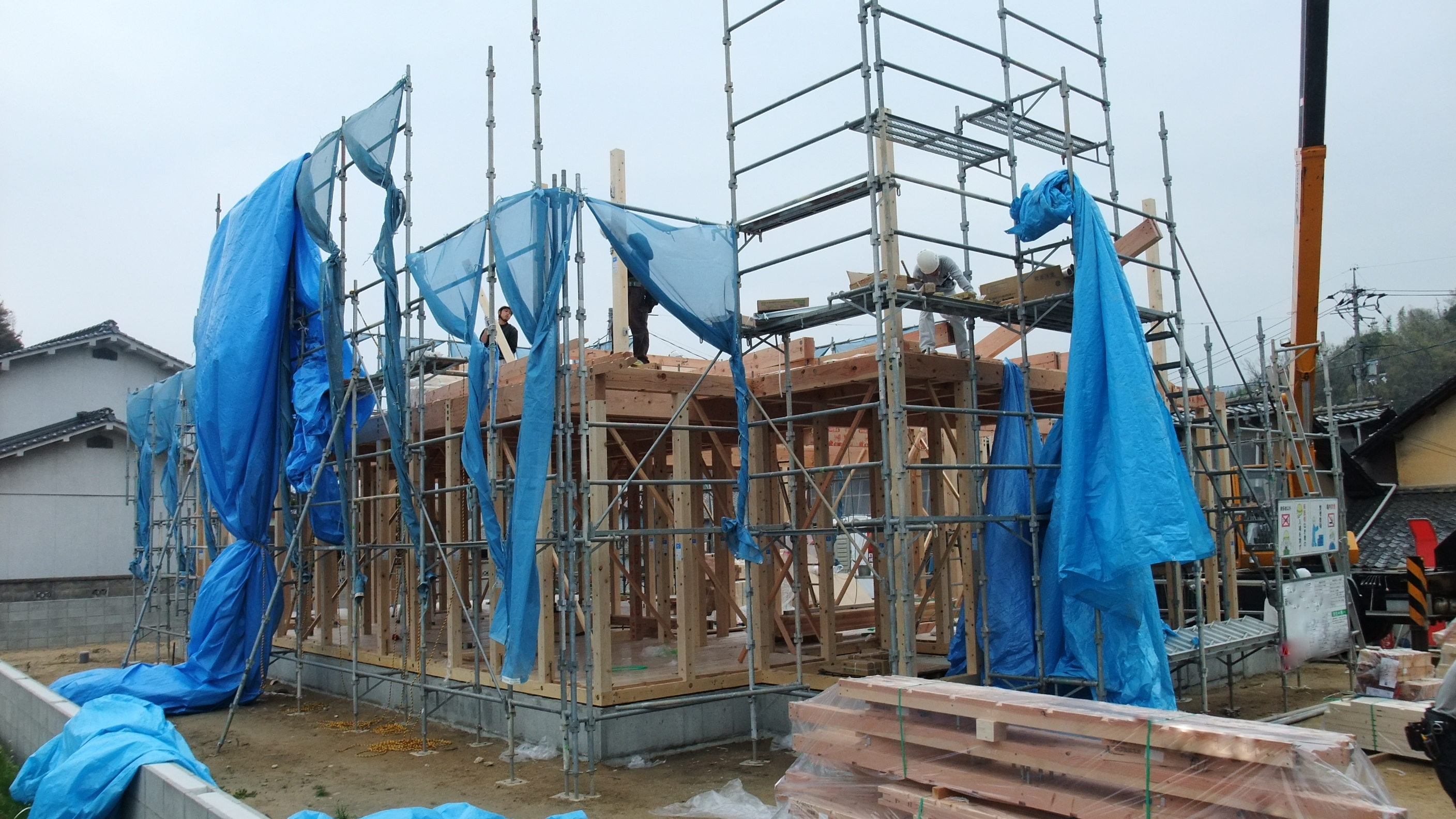 ridgepole-raising